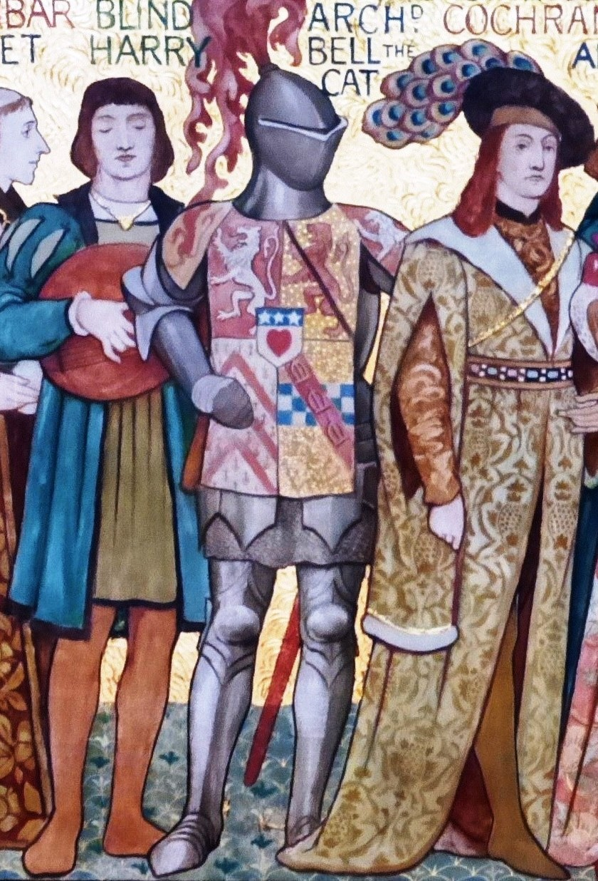 Archibald 'Bell-the-Cat' depicted on a frieze showing notable figures in Scottish history